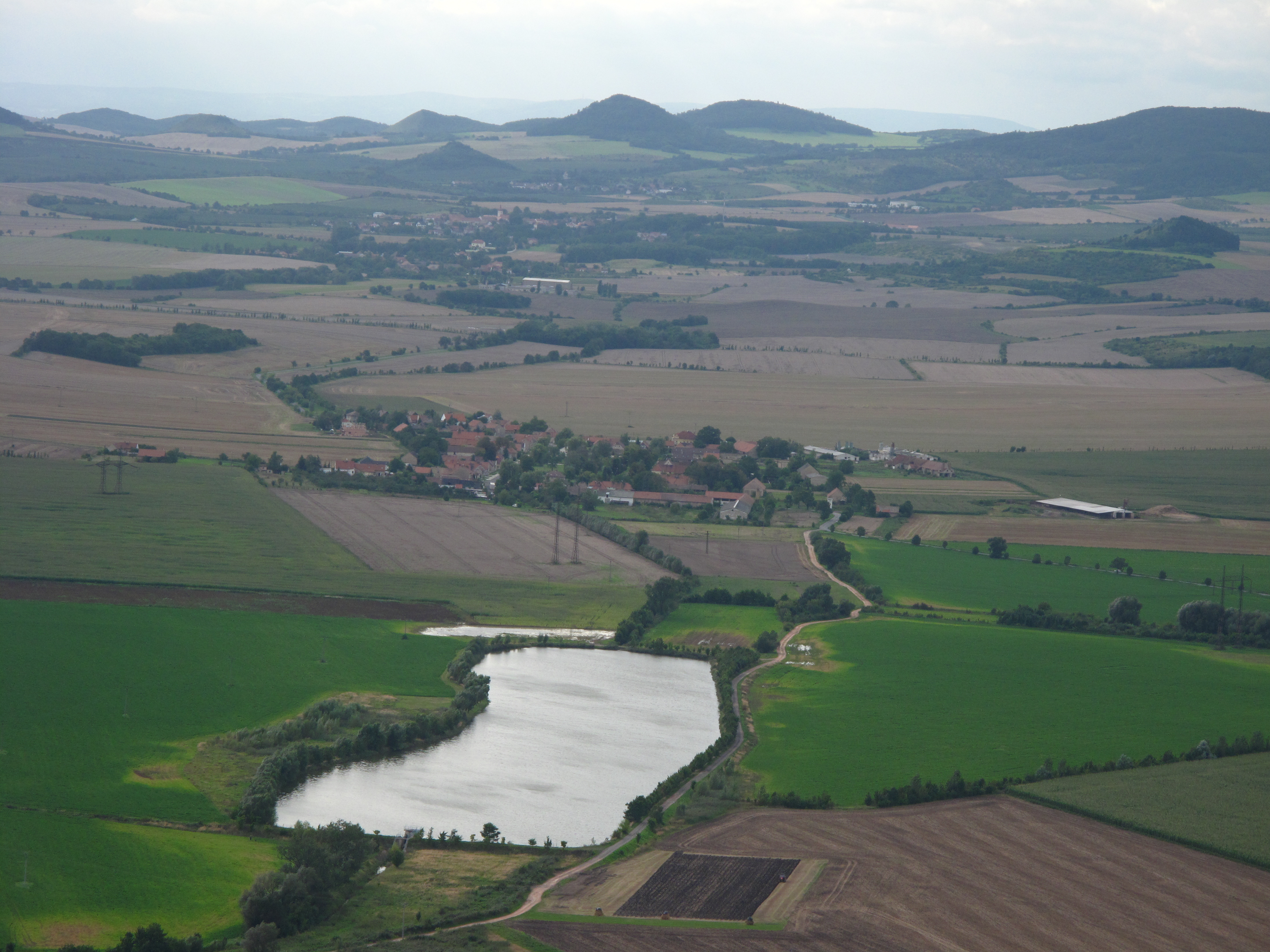 Pond on Rosovka Stream, Lkáň village and Solany village (background) as seen from Hazmburk Castle (ruin), Litoměřice District, Czech Republic.